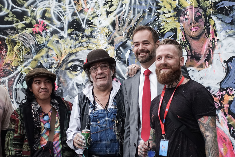 Hans Krull Jacob Bundsgaard og Peter Birk at Aarhus Streetart Festival (Aarhus Festival 2017)